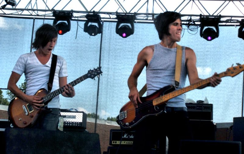 The Christian music band Nevertheless (band) at passion fest 07.07.2007